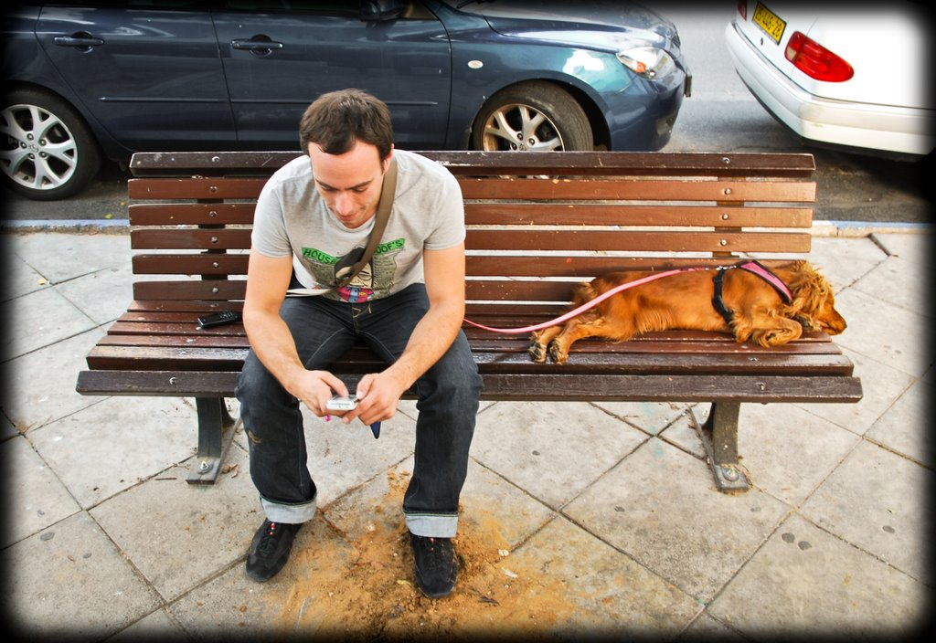 Taken on Dizengoff Tel Aviv